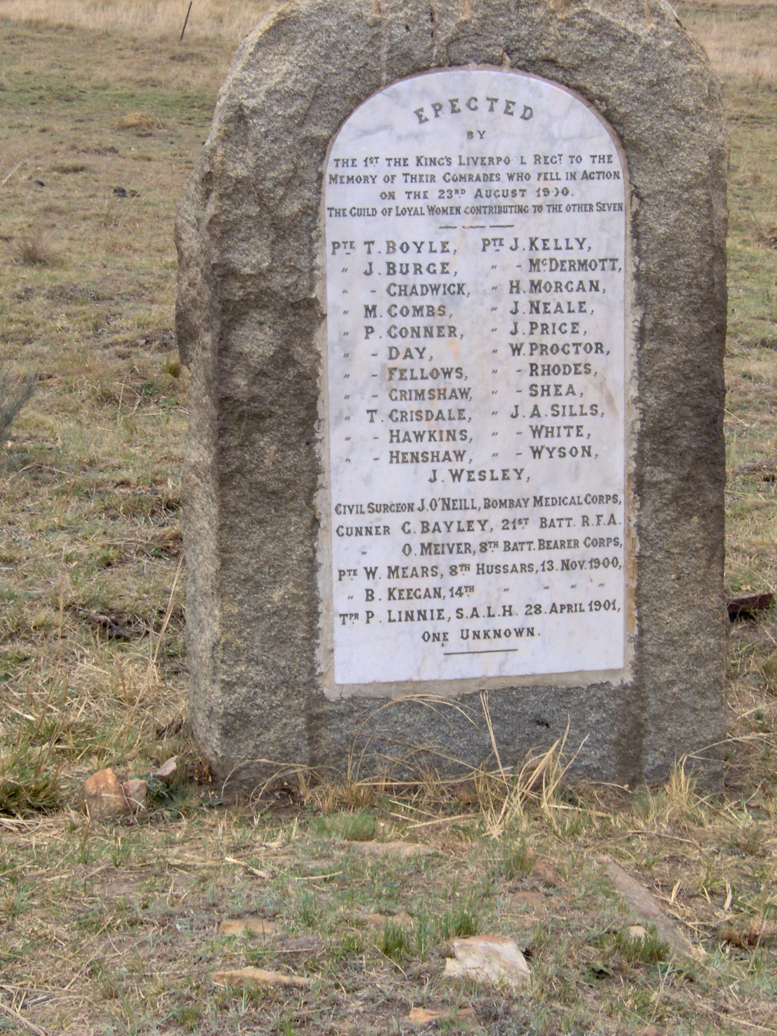 Gravestone erected on the farm Geluk for those who had died after fighting on 23 August 1900 in the South African War